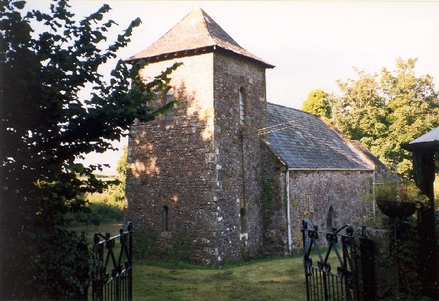 Llandawke Church. St Odoceus (or St Margaret Marloes?) is a very primitive 13C church (disused), on its own in a secluded valley. It was possibly founded in the dark Ages as it has a 5-6C stone with inscriptions in Ogham and Latin. It also has a 14C effigy of a woman, possibly Margaret, sister of Guy de Brian of Laugharne.